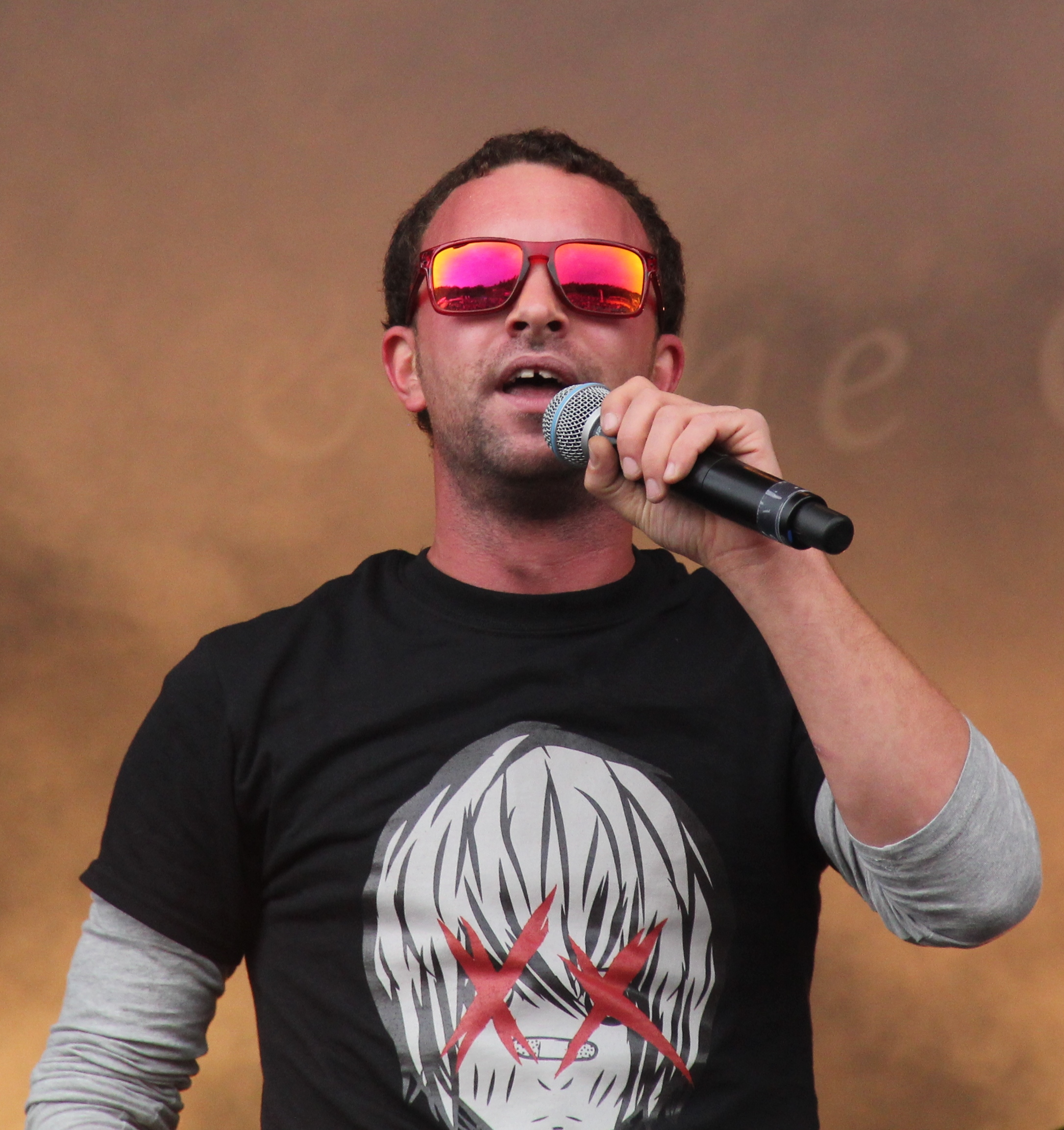 Kim-Daniel Sannes as master of ceremony at the 2015 Granittrock in Oslo